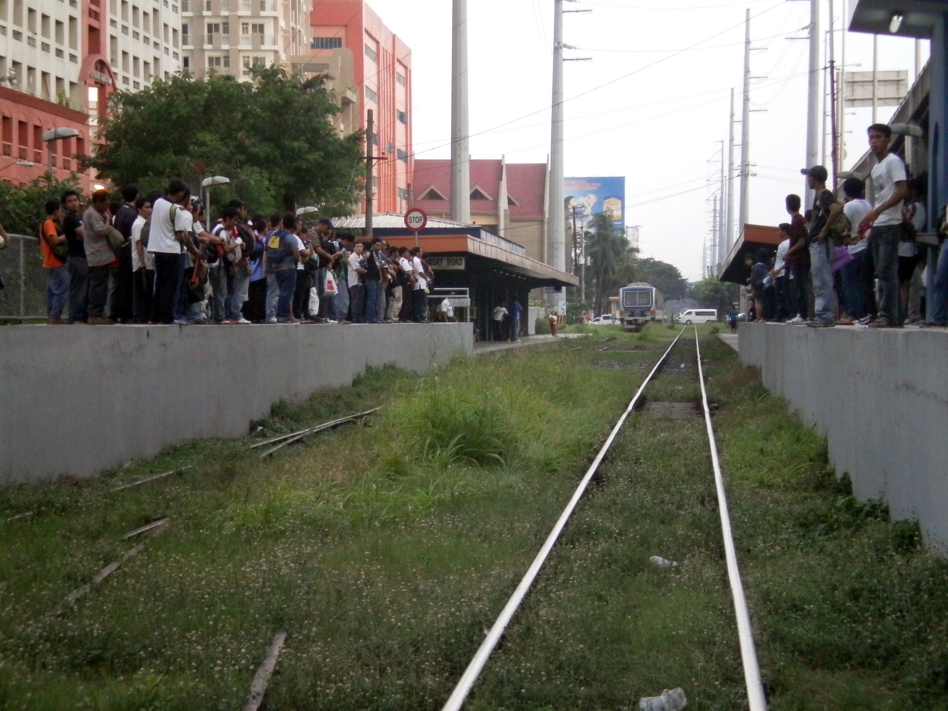 PNR train approaching Pasay Road station